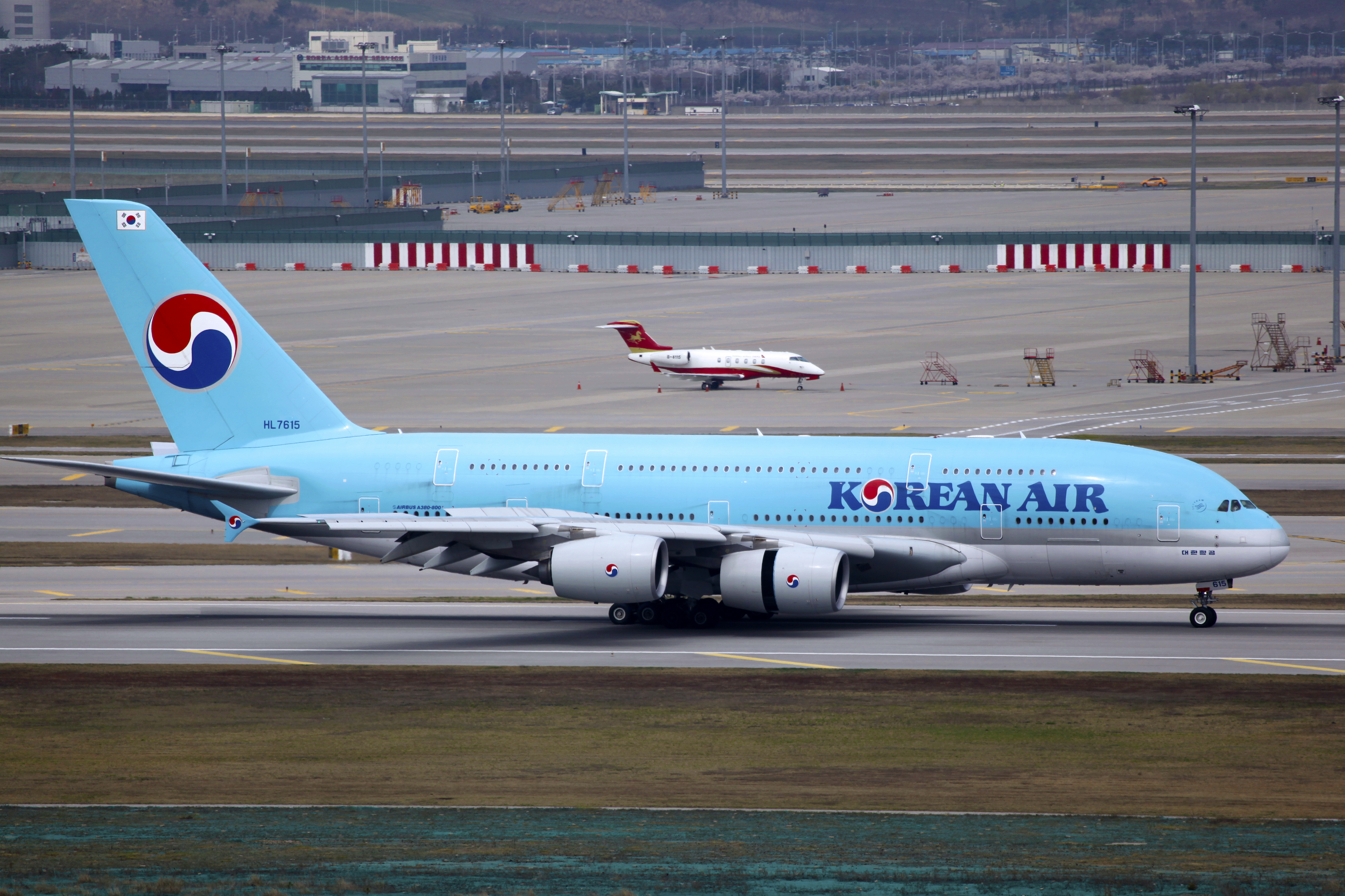 Korean Air Lines Airbus A380-861 Seoul Incheon International Airport [ICN]